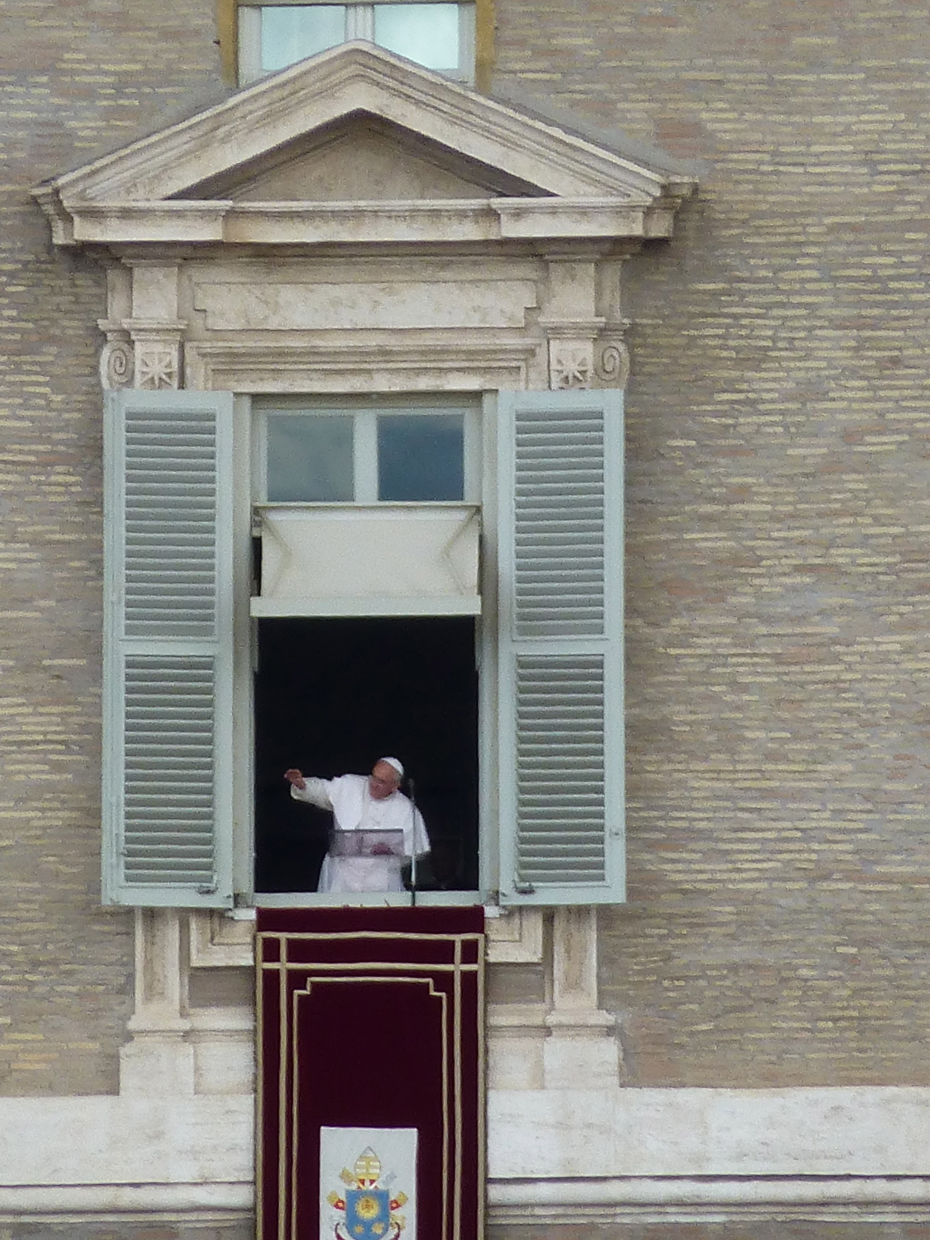 Pope Francis (Angelus)